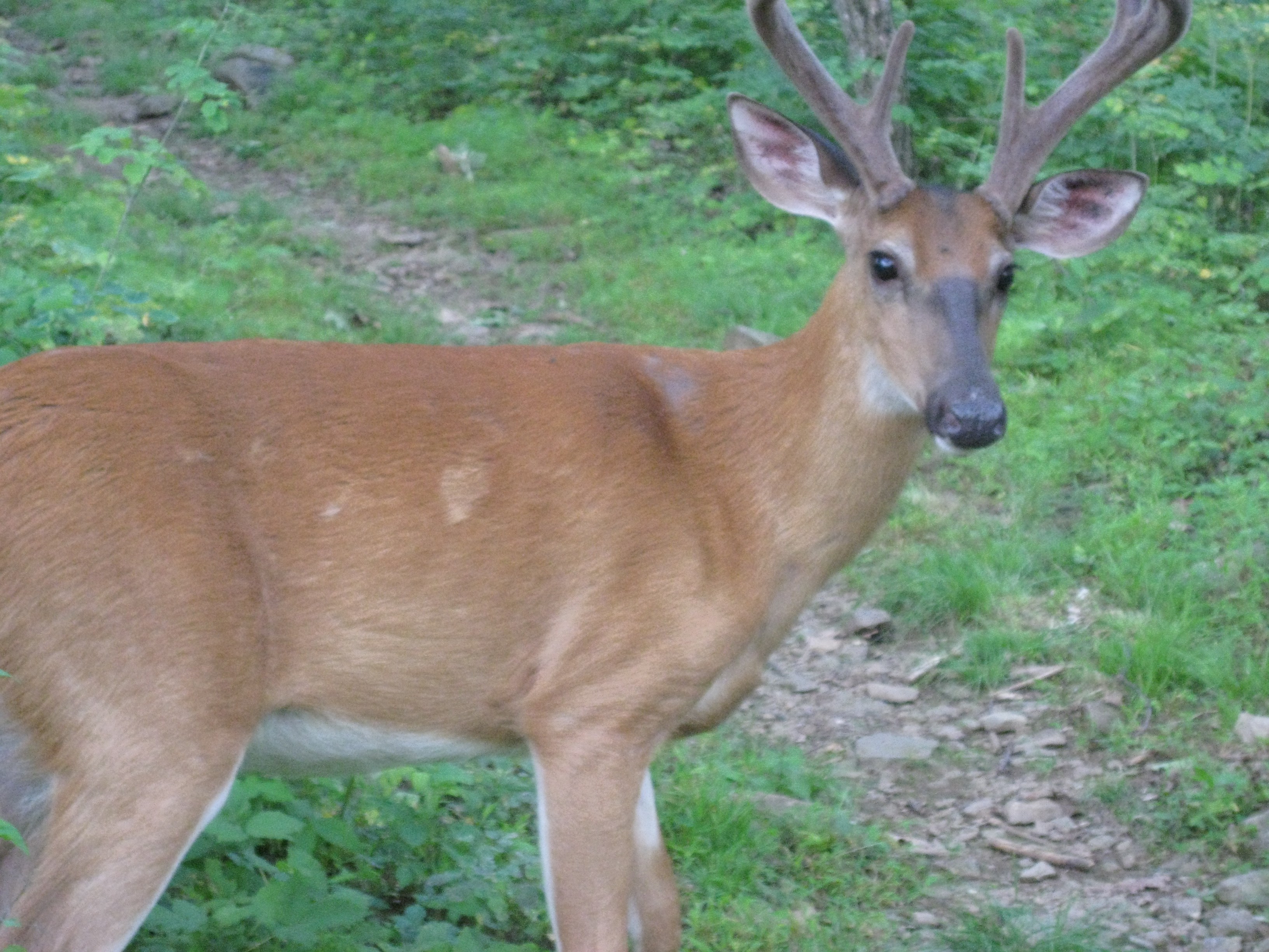 A male deer at Piney Ridge, Shenandoah National Park.